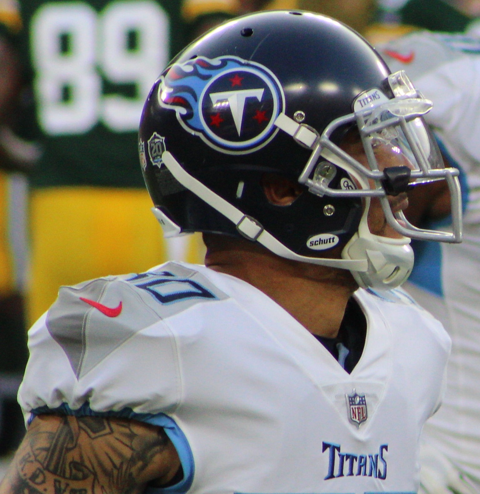 Kenny Vaccaro, Tennessee Titans at Green Bay Packers (Preseason), August 9, 2018